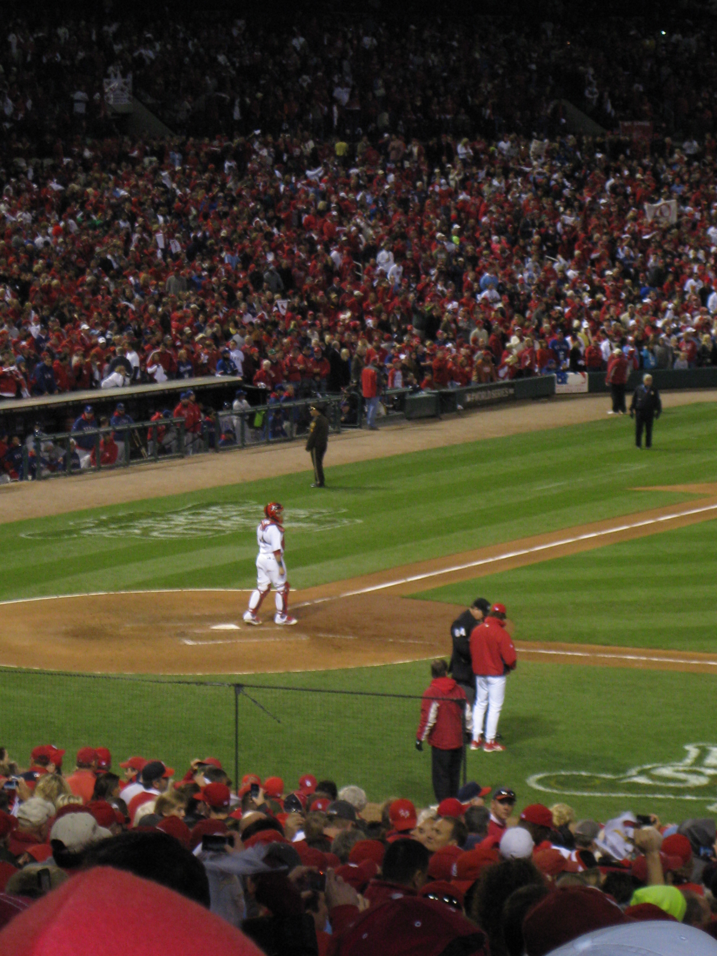 Tony La Russa makes a defensive double-substitution late in Game 7 of the 2011 World Series